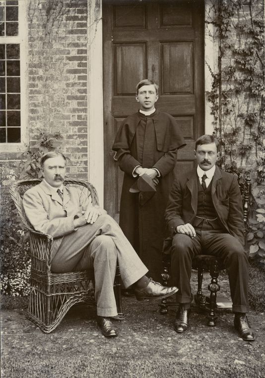 The Benson Brothers, 1907. Left to right: Arthur, Hugh, Fred.